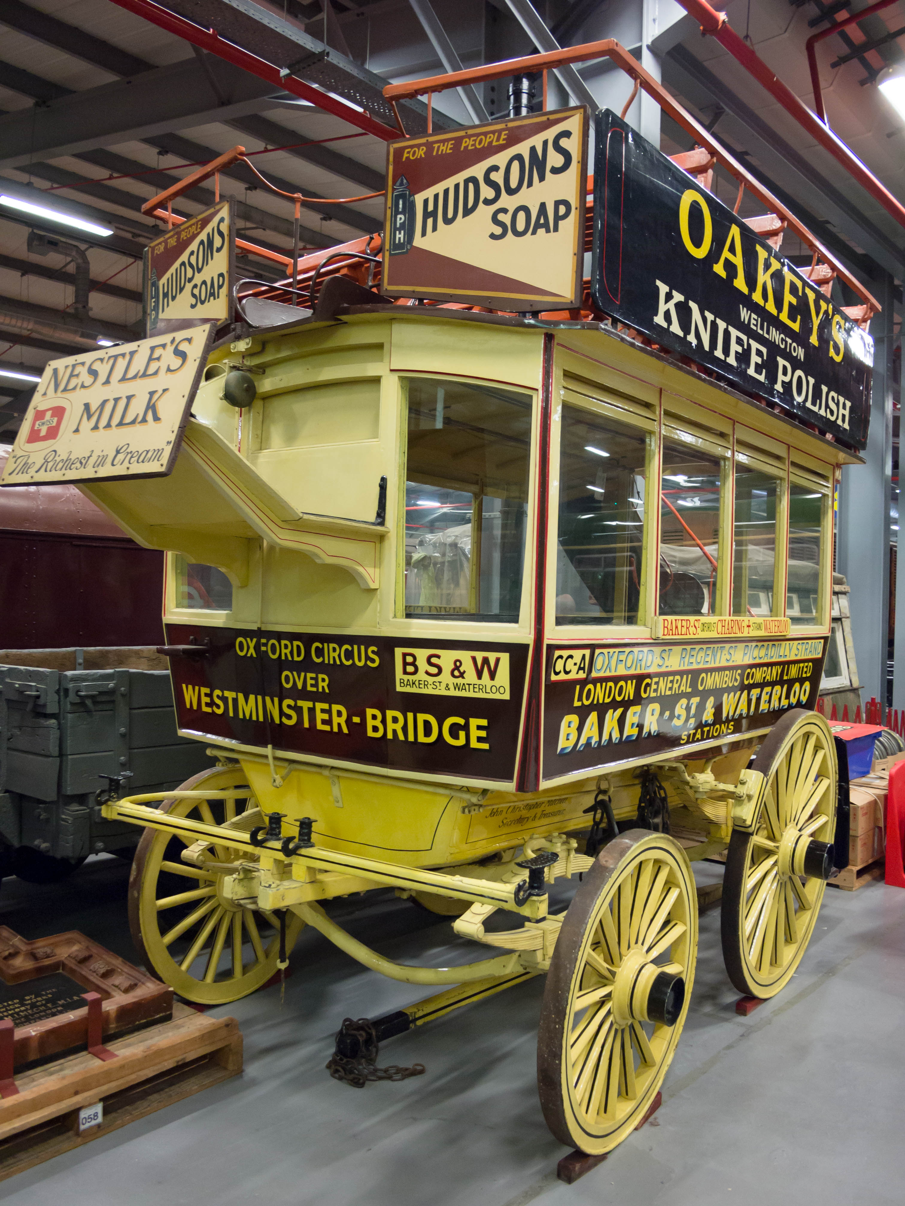 Acton Depot open day, March 2012